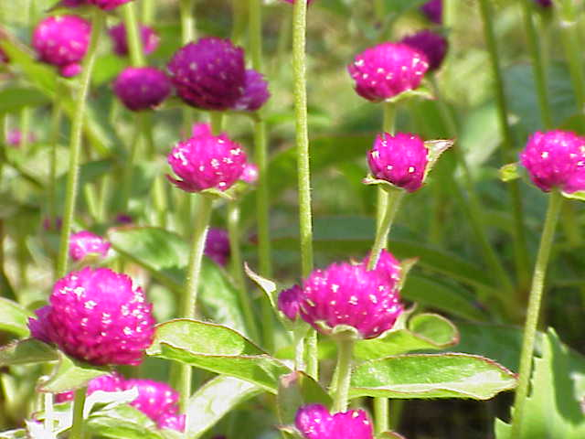 Species: Gomphrena globosa Family: Amaranthaceae Image No. 2